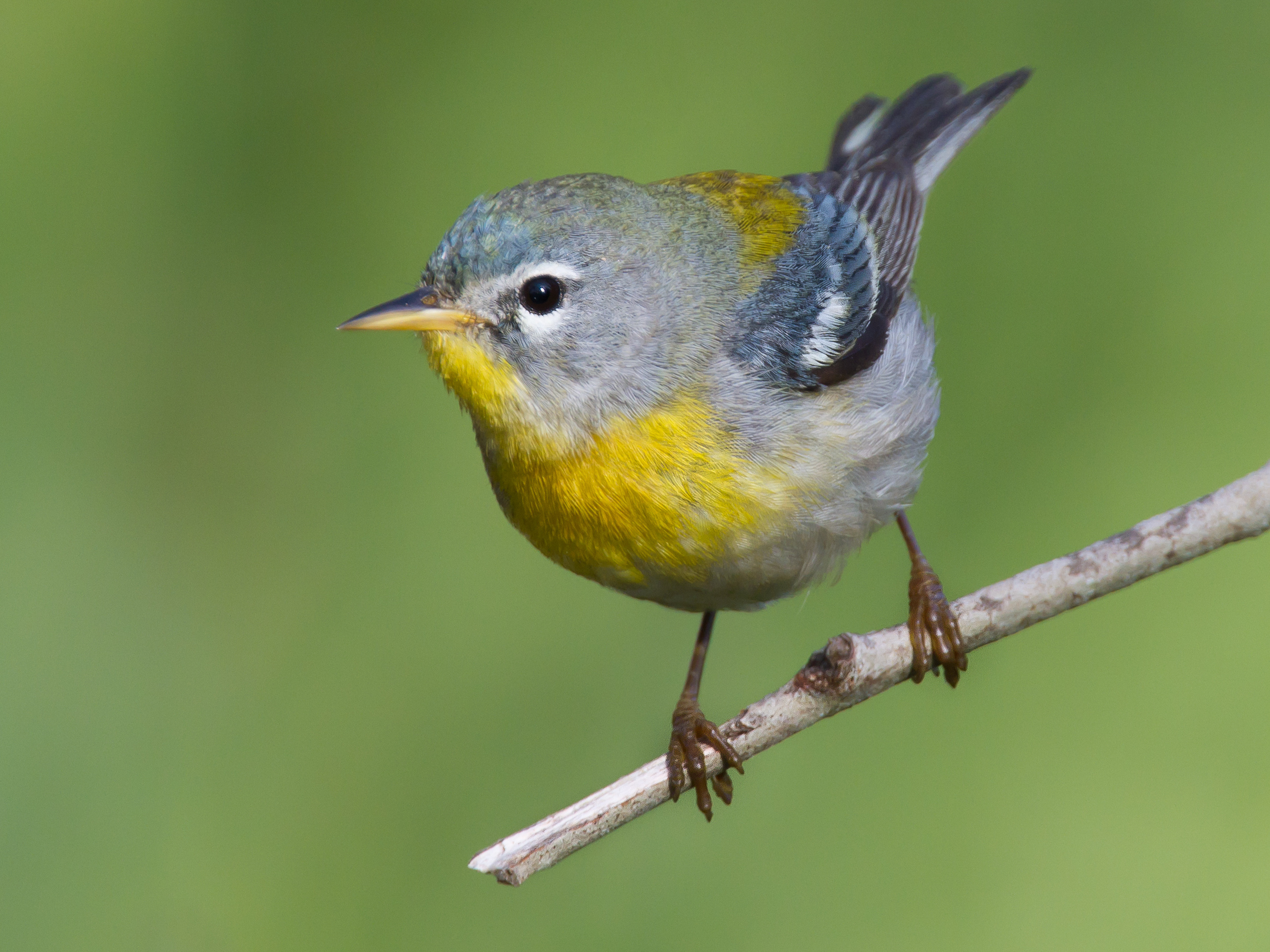 An adult Northern Parula at Dos Vacas Muertas Bird Sanctuary, Galveston Island, Galveston, Texas, USA.